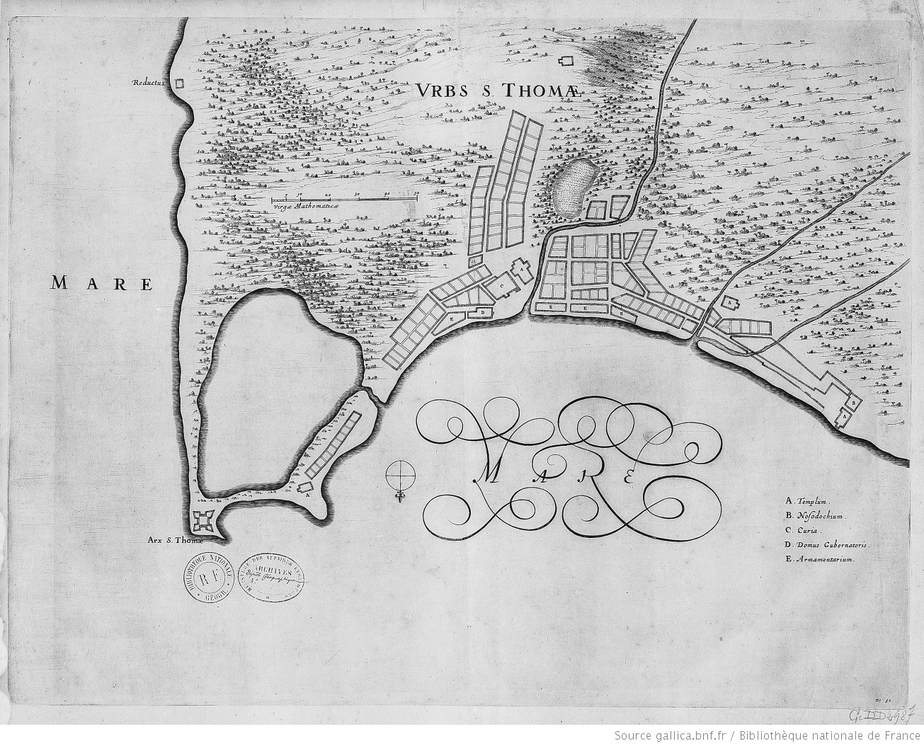 Urbs S. Thomae- [ex typographeio Joannis Blaeu] ([Amstelodami])